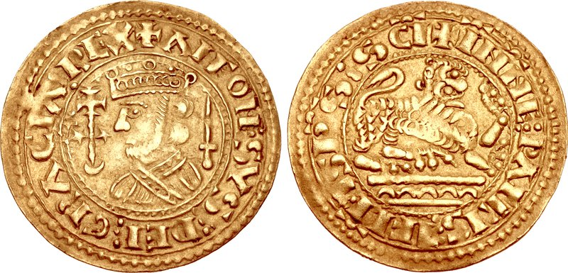 Spain, Castile & León. Alfonso IX el Baboso (the Slobberer). King of León, 1188-1230. AV Maravedi – Morabetino (27mm, 3.85 g, 6h). Salamanca mint. + ΛIFONS : DEI : GRΛCIΛ : REX (triple pellet stops), crowned bust left; before, cross-tipped scepter on crescen, flanked by stars; sword behind + INNE : PΛTRIS : IFLI : ISPS : SCI (triple pellet stops), lion rampant right.